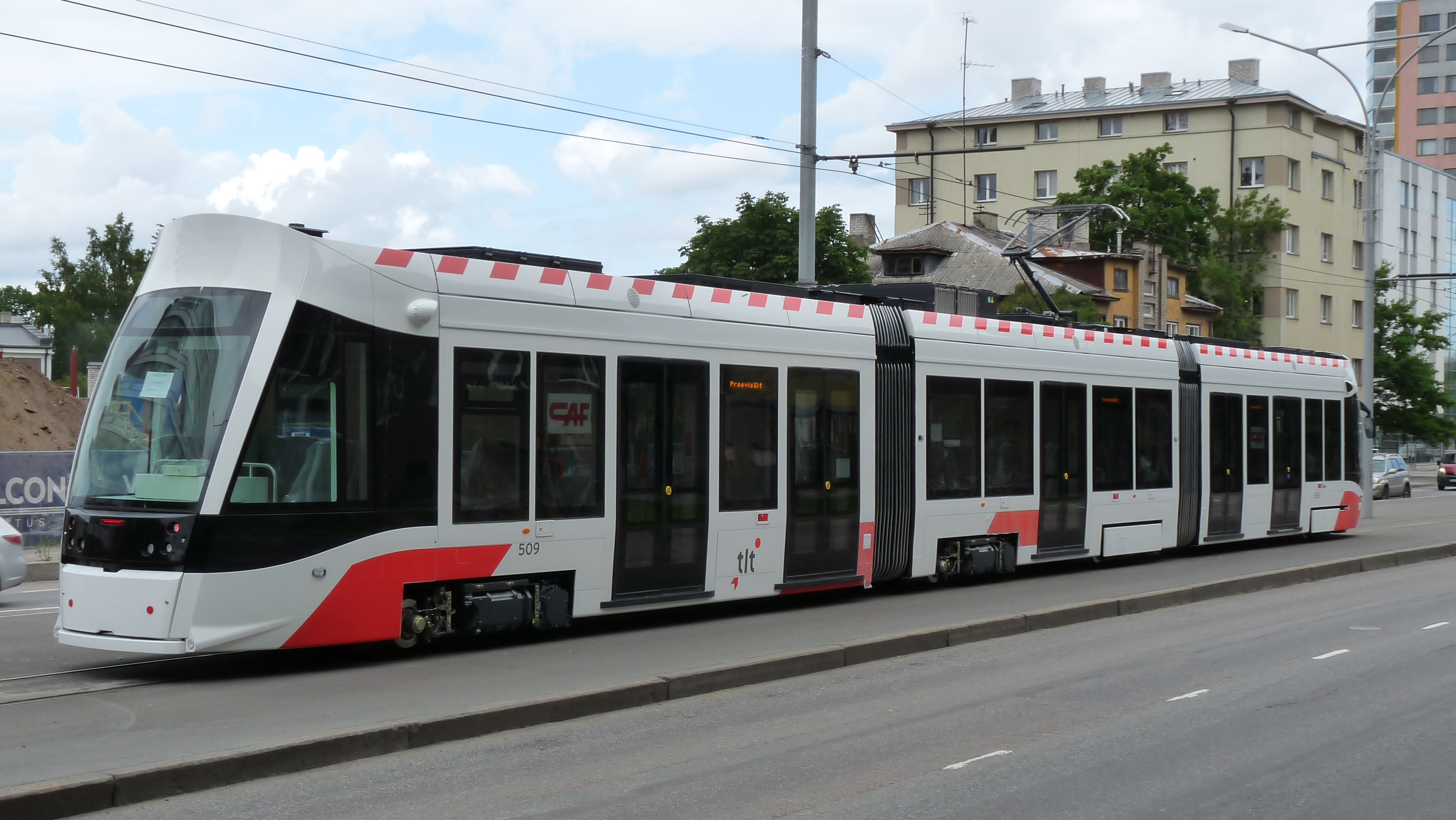 CAF tram in Tallinn, Estonia